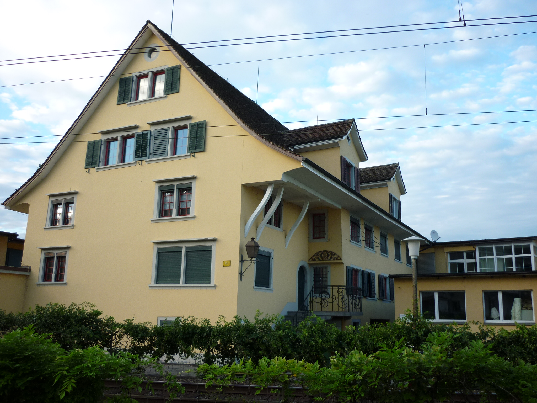 Old tannery in Horgen ZH, Switzerland